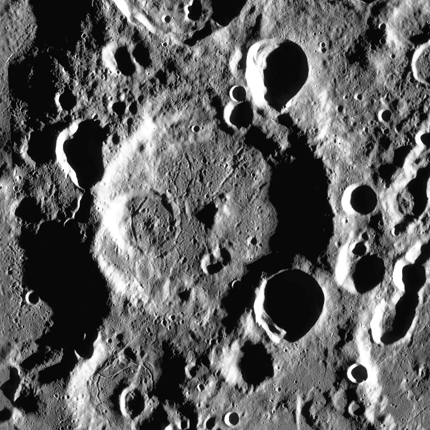 Crater Vasco da Gama (diam. 94 km) on the Moon. Mosaic of photos by Lunar Reconnaissance Orbiter, made with Wide Angle Camera. Size of the image is 170×170 km, north is up